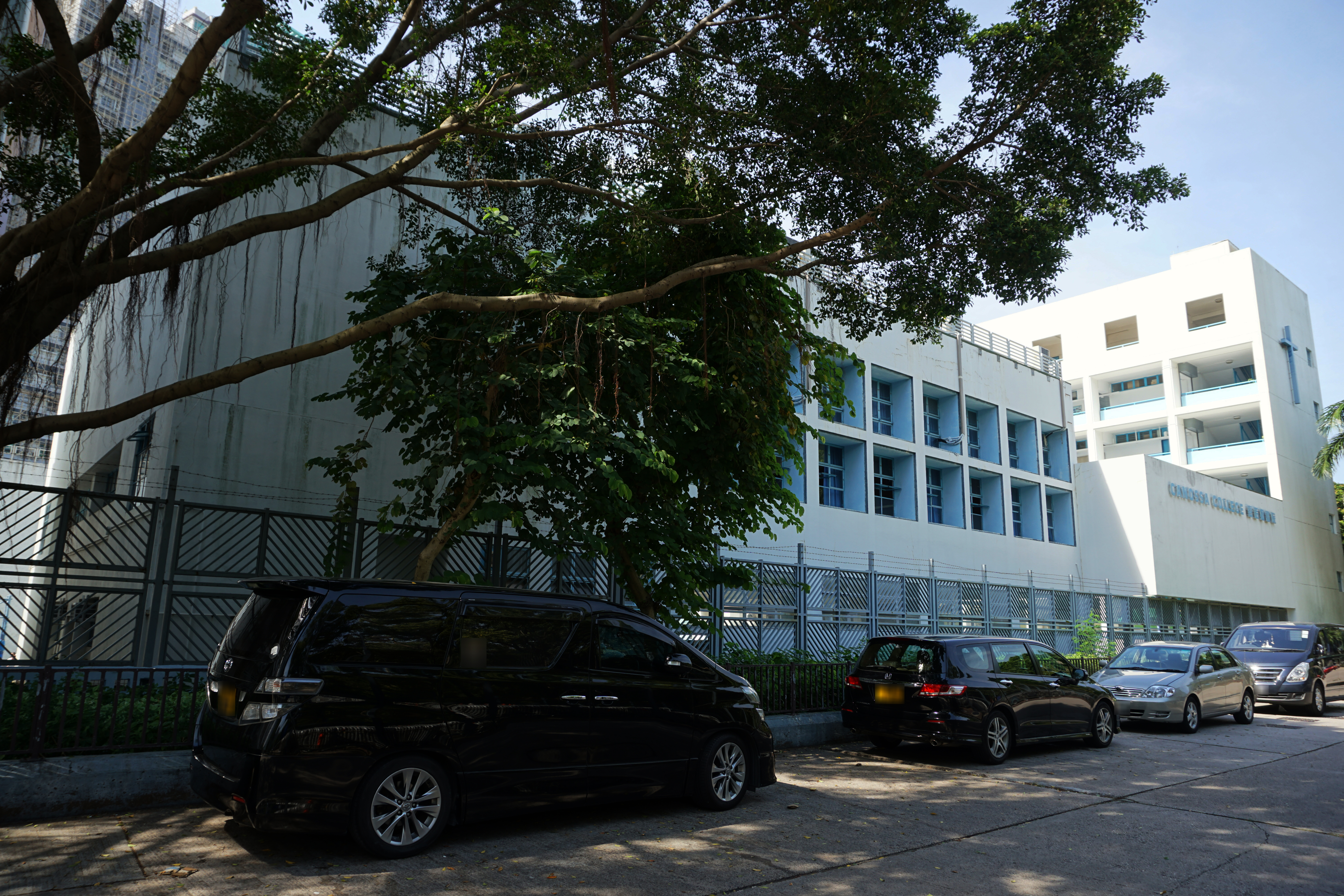 Canossa College in Quarry Bay, Hong Kong.